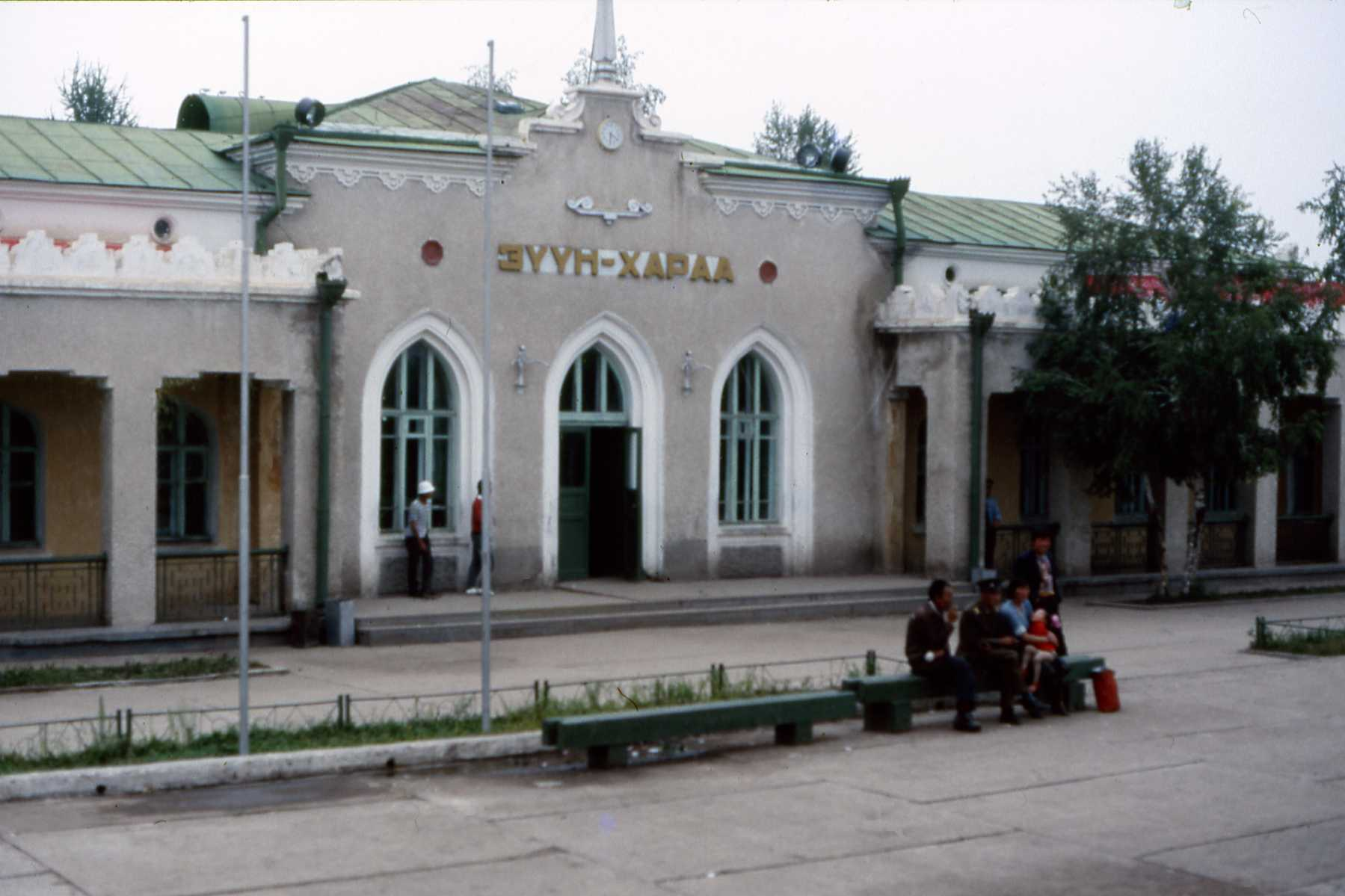 Züünkharaa Station Mongolia Монгол: Зүүнхараа (Зүүн-хараа) өртөө